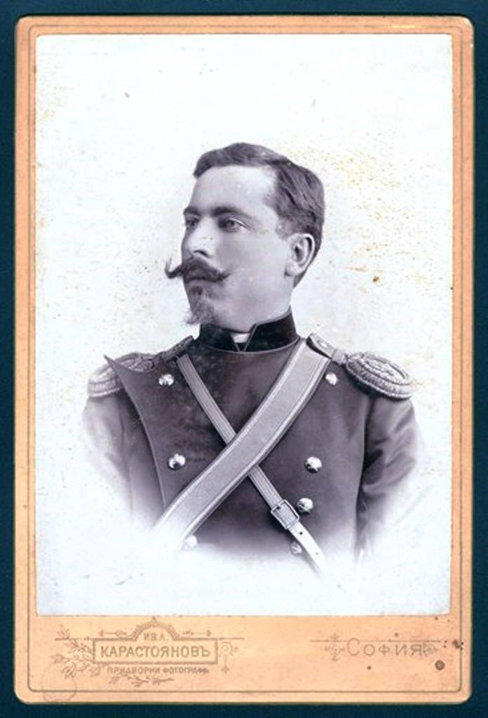 captain Vladimir Vazov (18 April 1896)